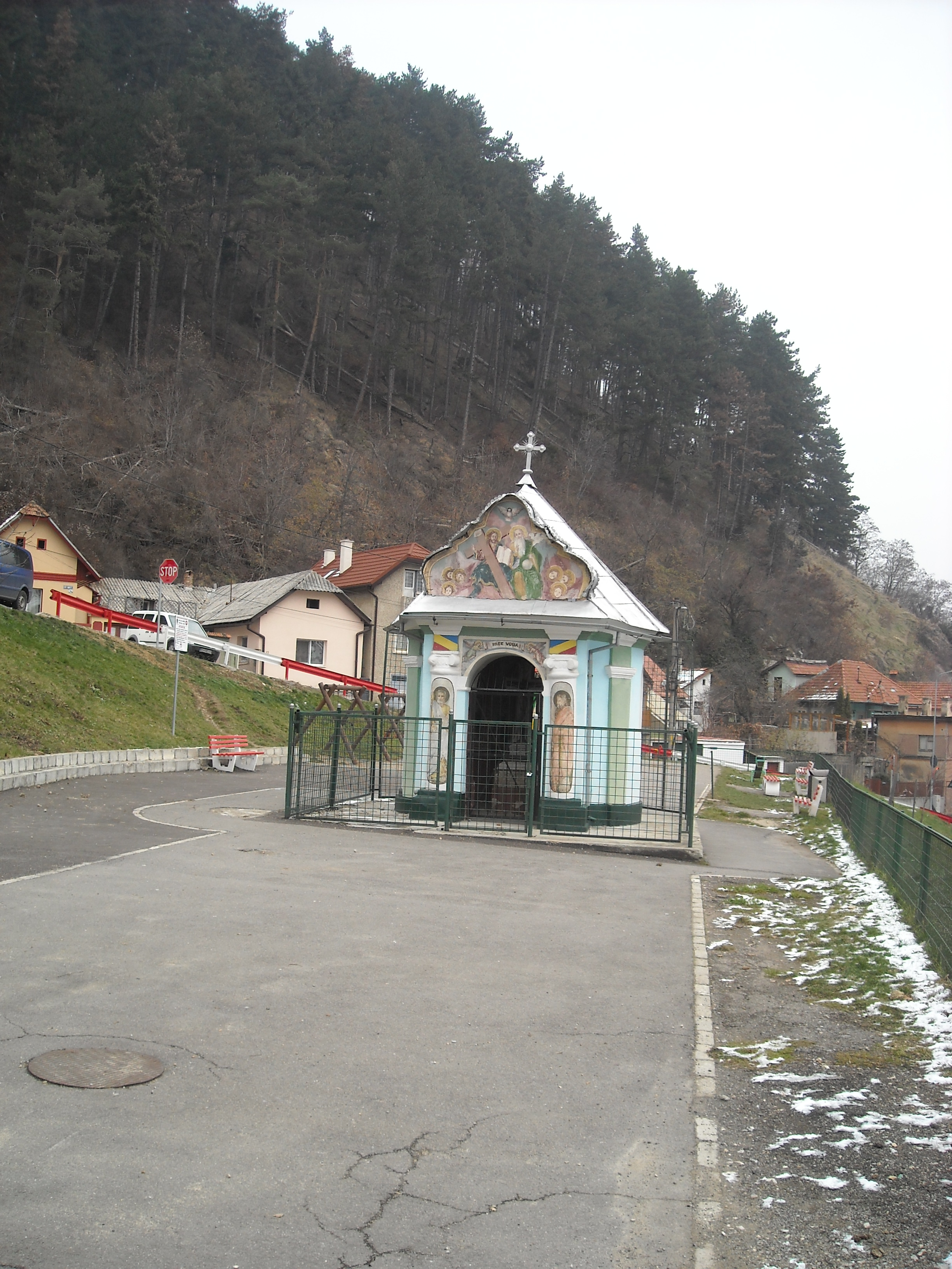 a road cross in the Variște neighbourhood of Șcheii Brașovului